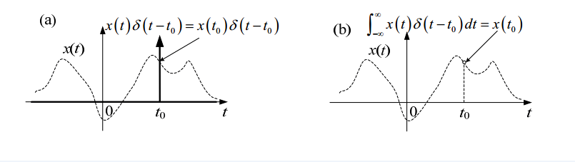 Shembuj